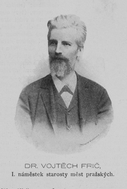 Portrait of Vojtěch Frič (1844-1918), Czech lawyer, municipal politician in Prague and board member of Sokol.